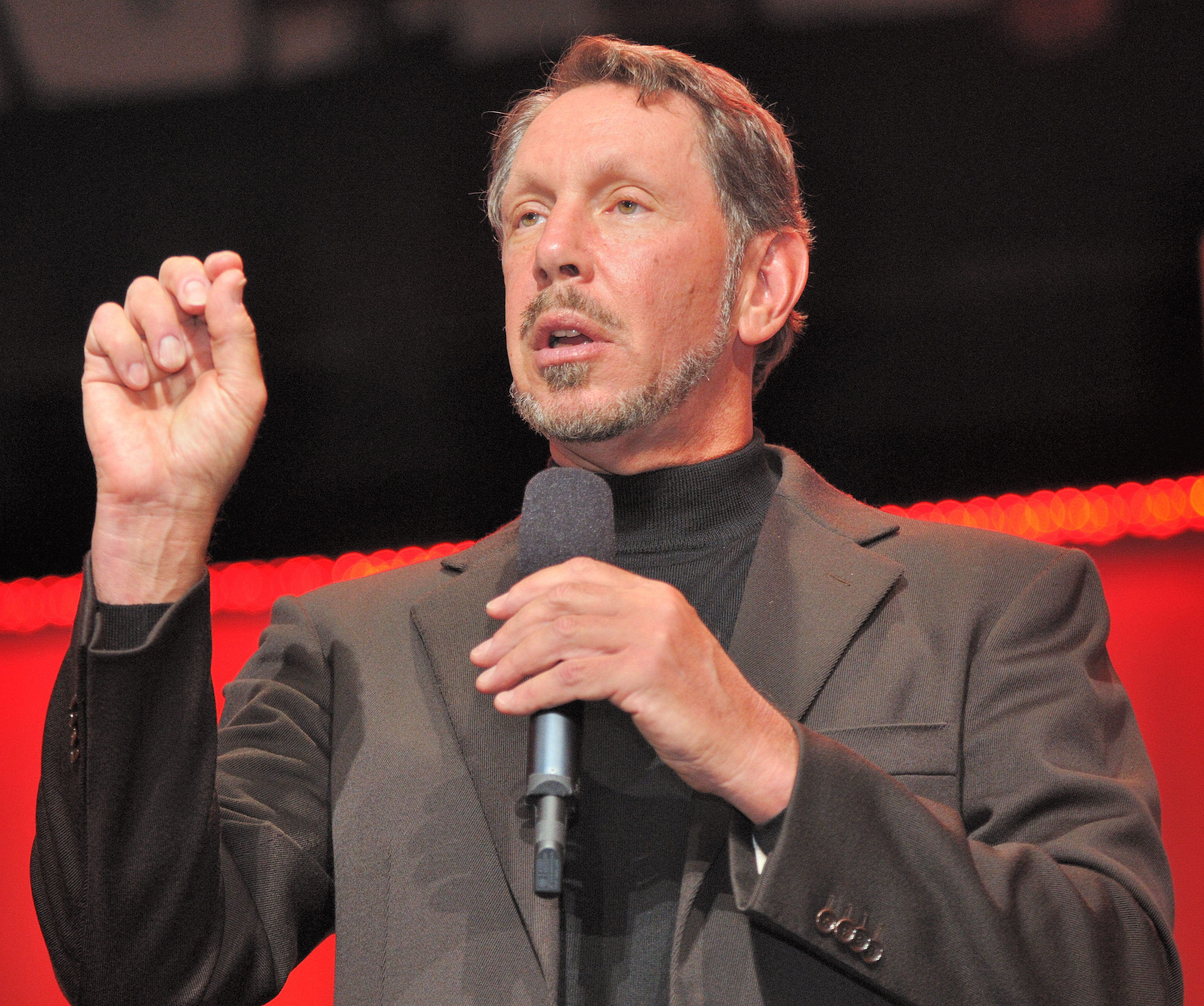 Larry Ellison on stage.